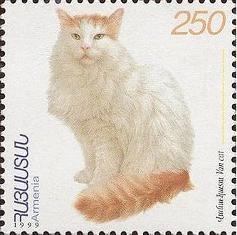 Armenian postage stamp; Van cat; 1999.